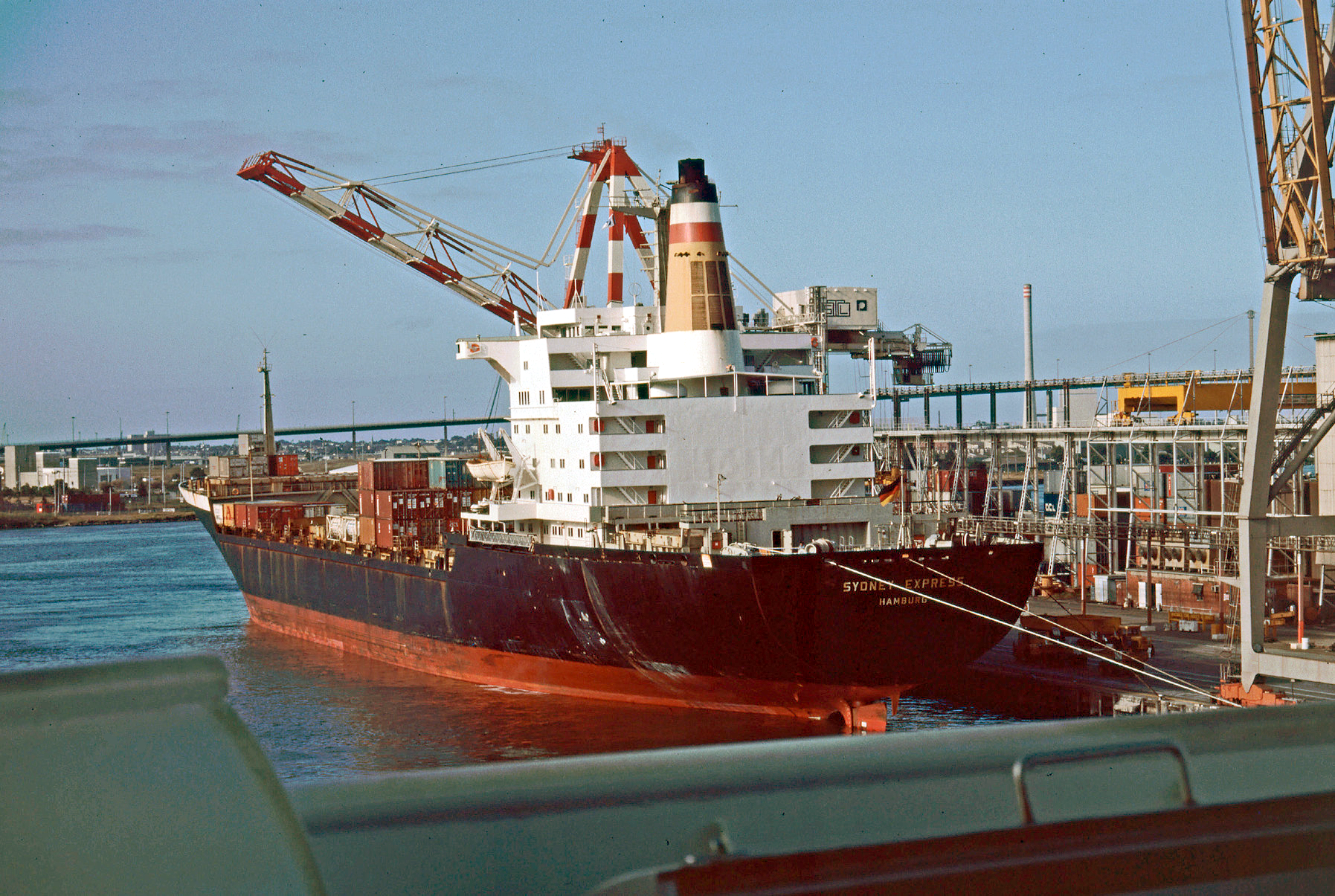 Port of Melbourn -1987, rear view of the container ship Sydney Express